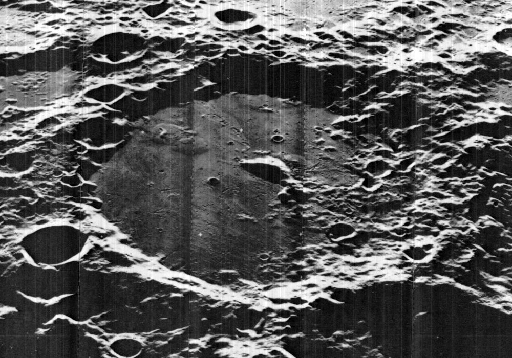 Oblique view of Von Kármán, on the far side of the moon, facing west.